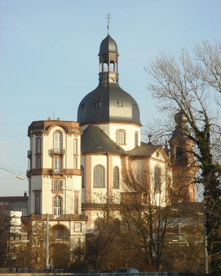 Mannheim Jesuit Church from West